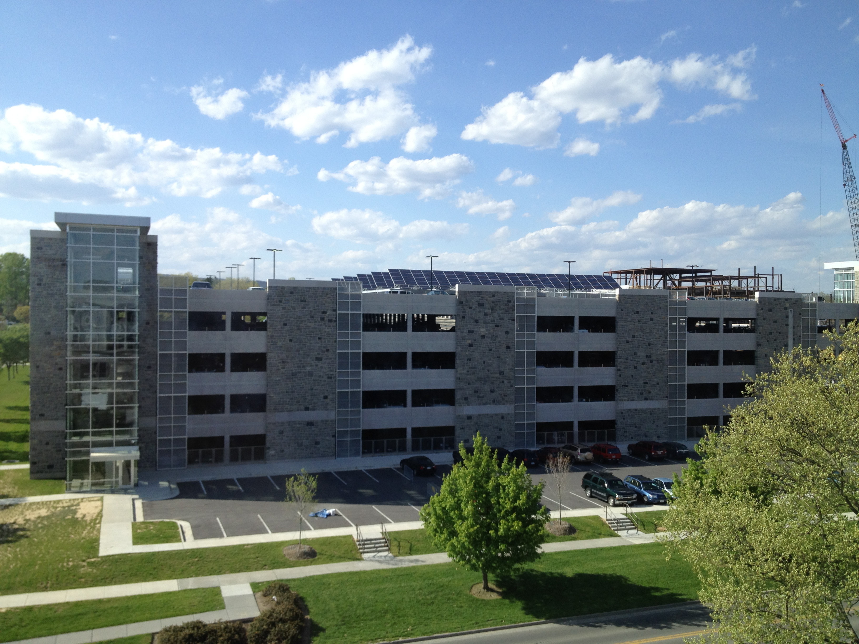 The new parking deck, Virginia Tech, Blacksburg, Virginia